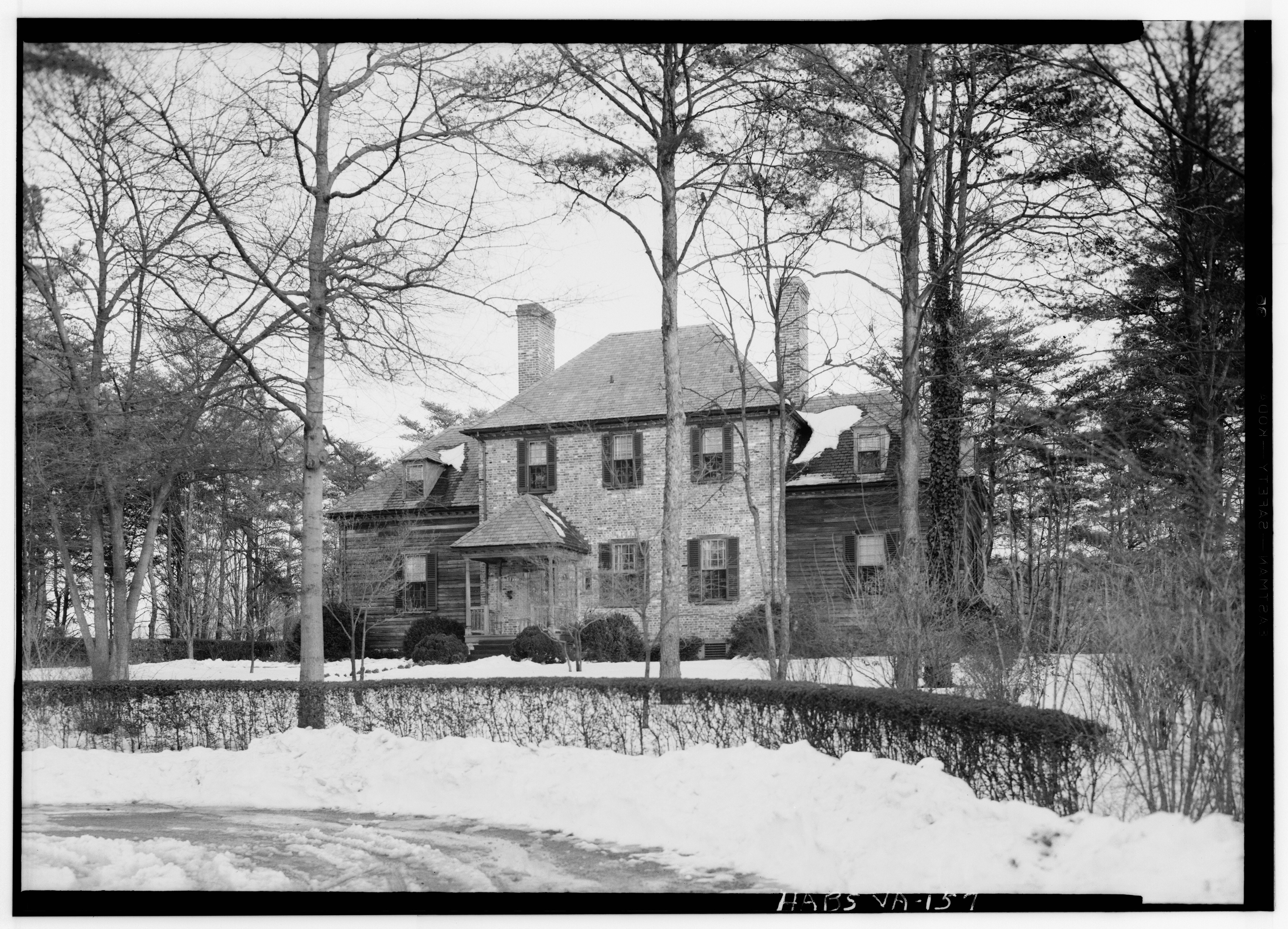 Home of Edmund Harrison and family; 4,587 sq. ft., built 1745; later gifted 1975 to Virginia Museum of Fine Arts; designated residence of sitting director until sold 2014